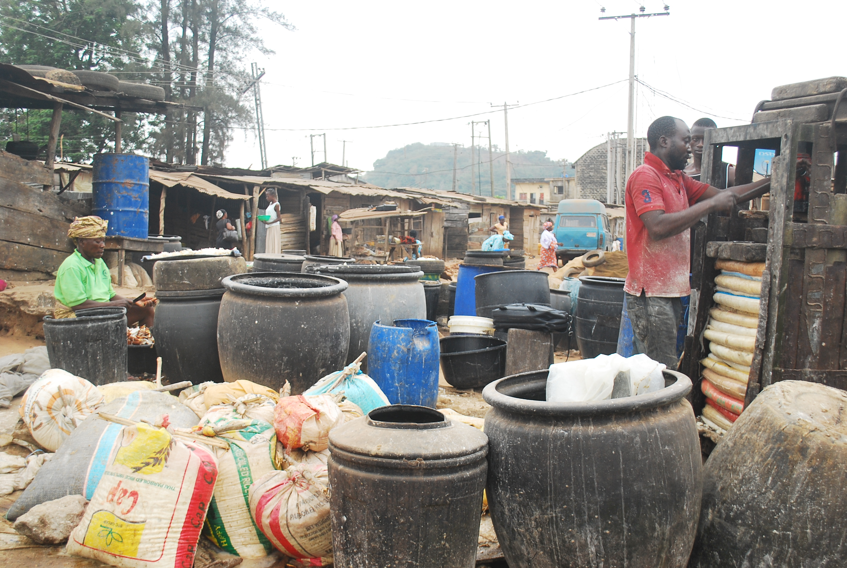 De- watering and fermenting: This completes the process of removing cyanide from the cassava mash. The water content in the mash is reduced using hydraulic press. The bags are then left to drain and ferment for a few days. This is an image of "African people at work" from Nigeria